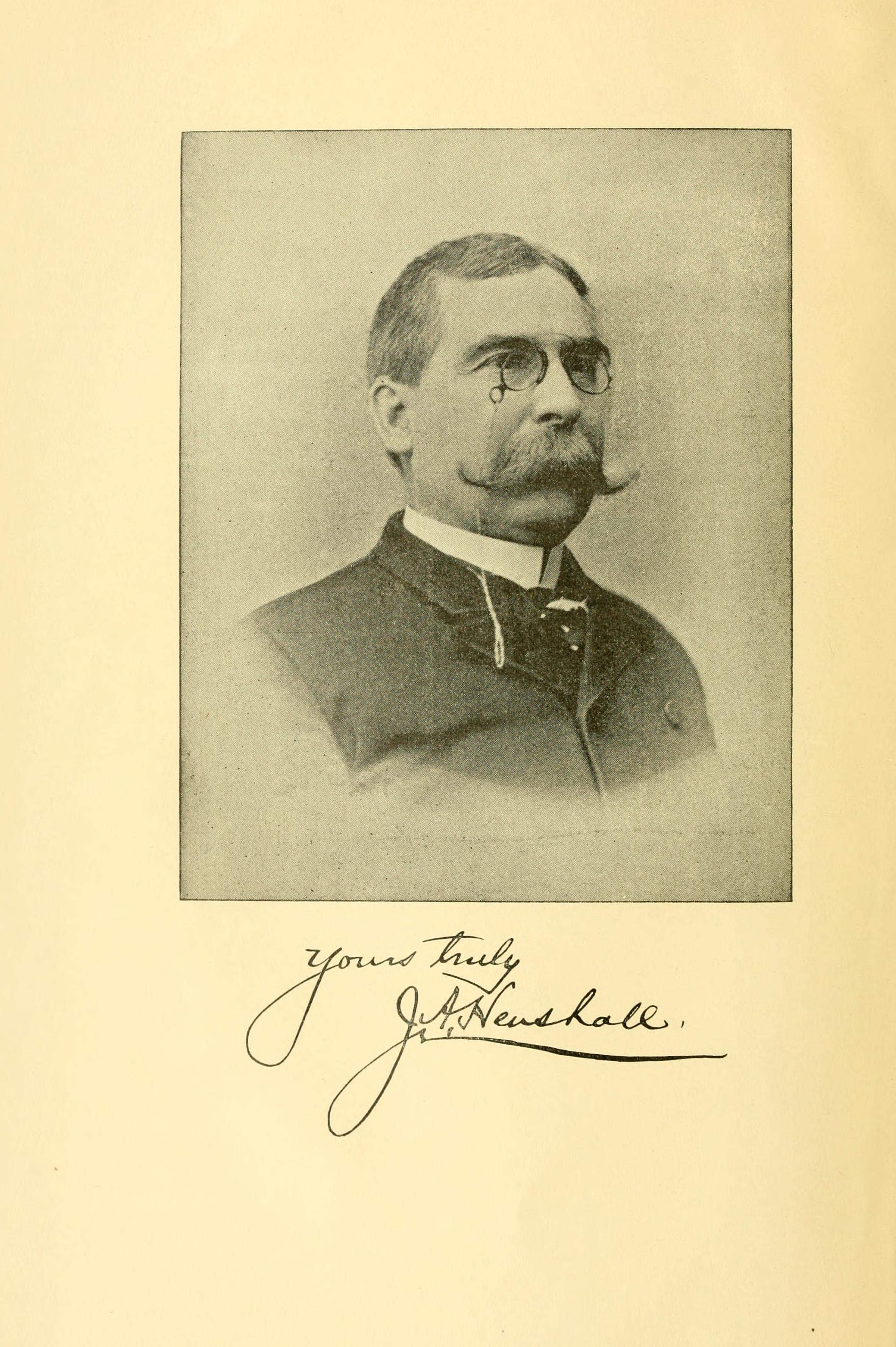 Book of the black bass : comprising its complete scientific and life history, together with a practical treatise on angling and fly fishing and a full description of tools, tackle and implements / by James A. Henshall.